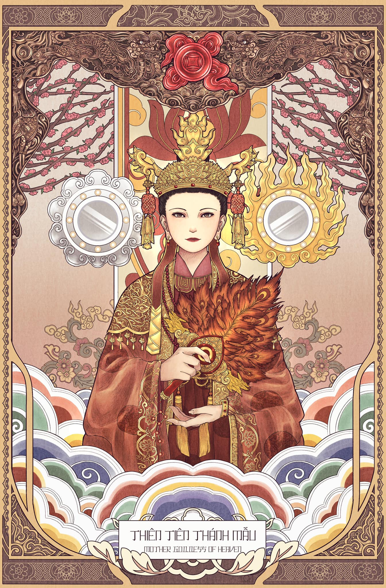 {"subsource":"done_button","uid":"4AD794FA-A442-4071-9E2E-01B852822225_1592416980045","source":"other","origin":"gallery","source_sid":"4AD794FA-A442-4071-9E2E-01B852822225_1592416980209"}